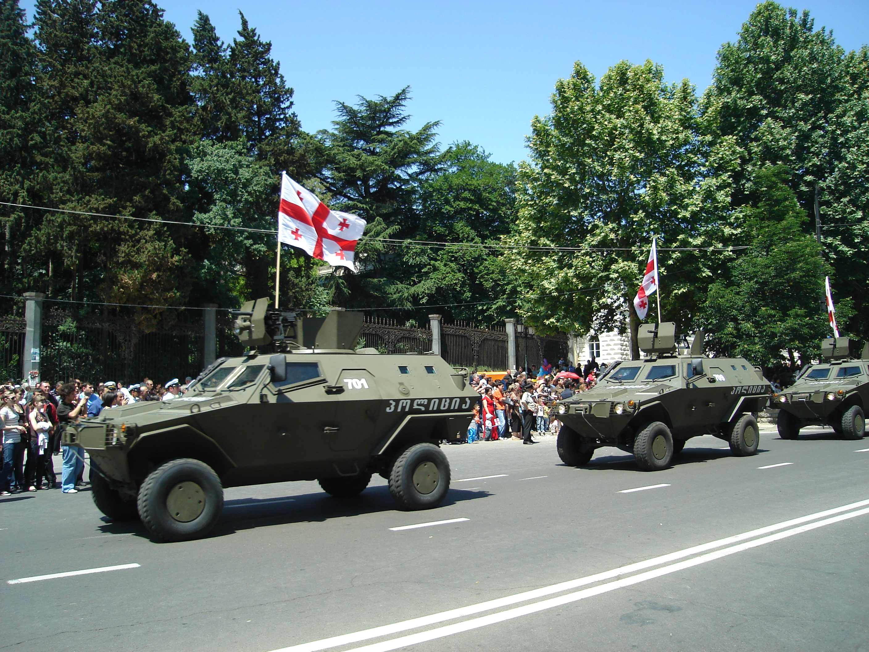 Georgian police Otokar Cobra vehicles during the Independence Day parade on May 26, 2008.